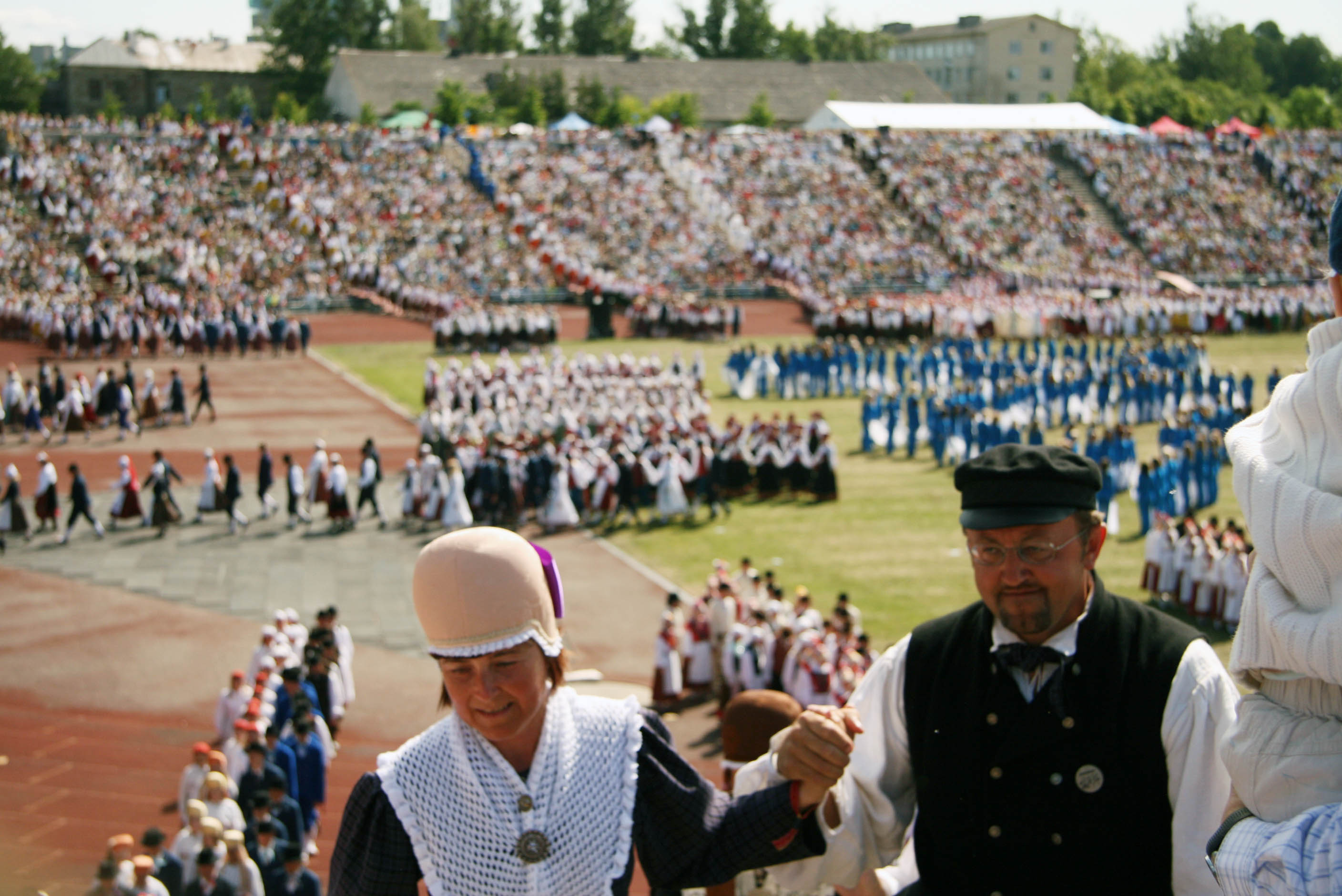 Tallinn song and dance festival 2009